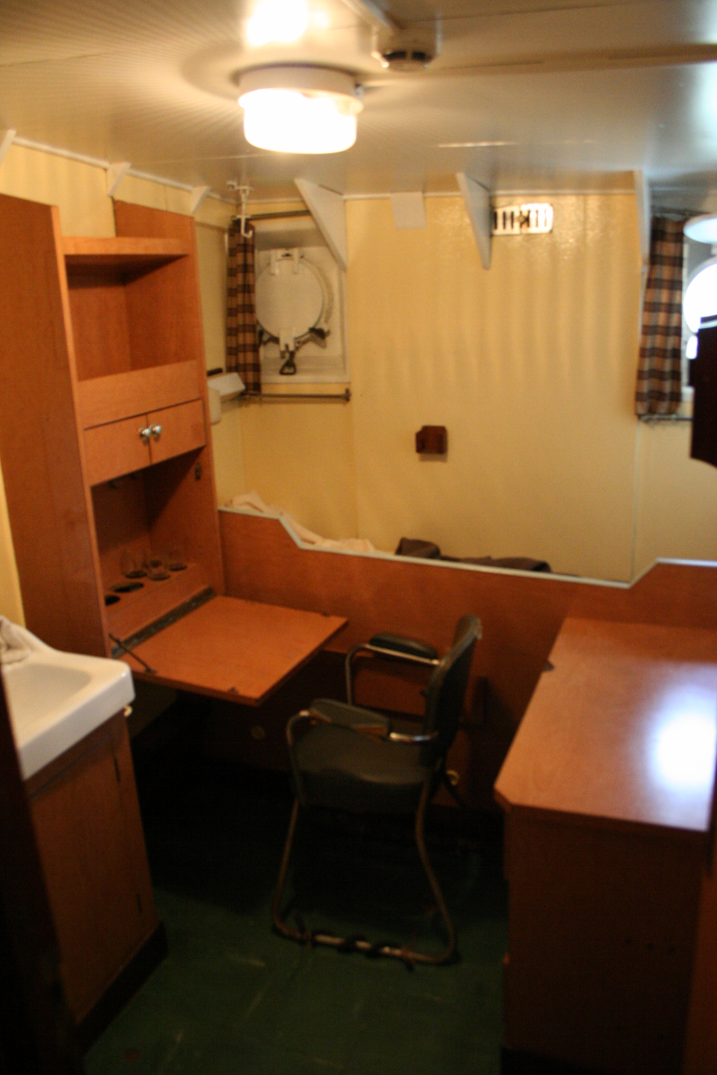 Crew cabin on the trawler Angoumois